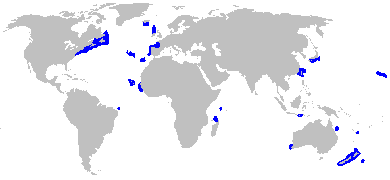 Distribution map for Pseudotriakis microdon, based on [1]